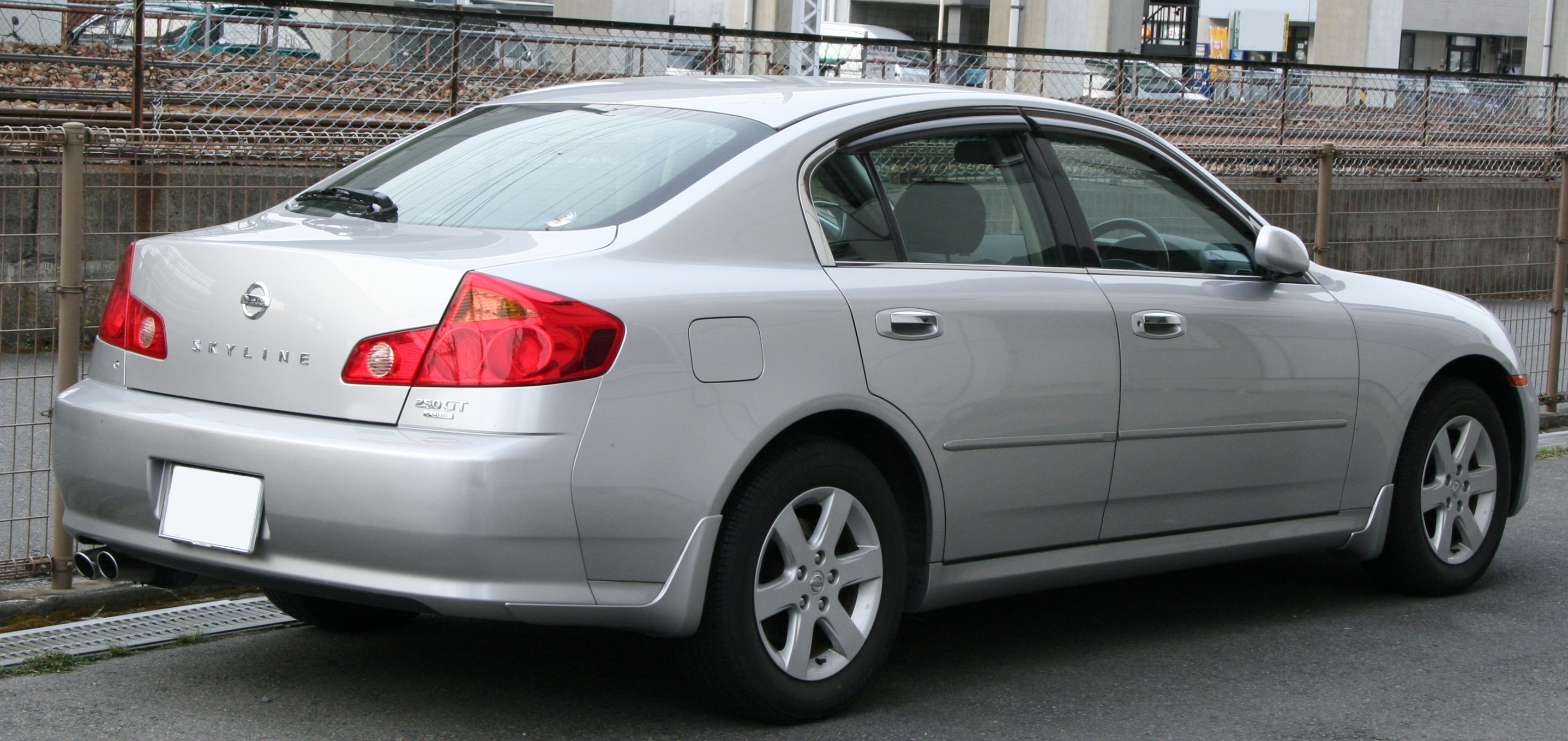 Nissan Skyline